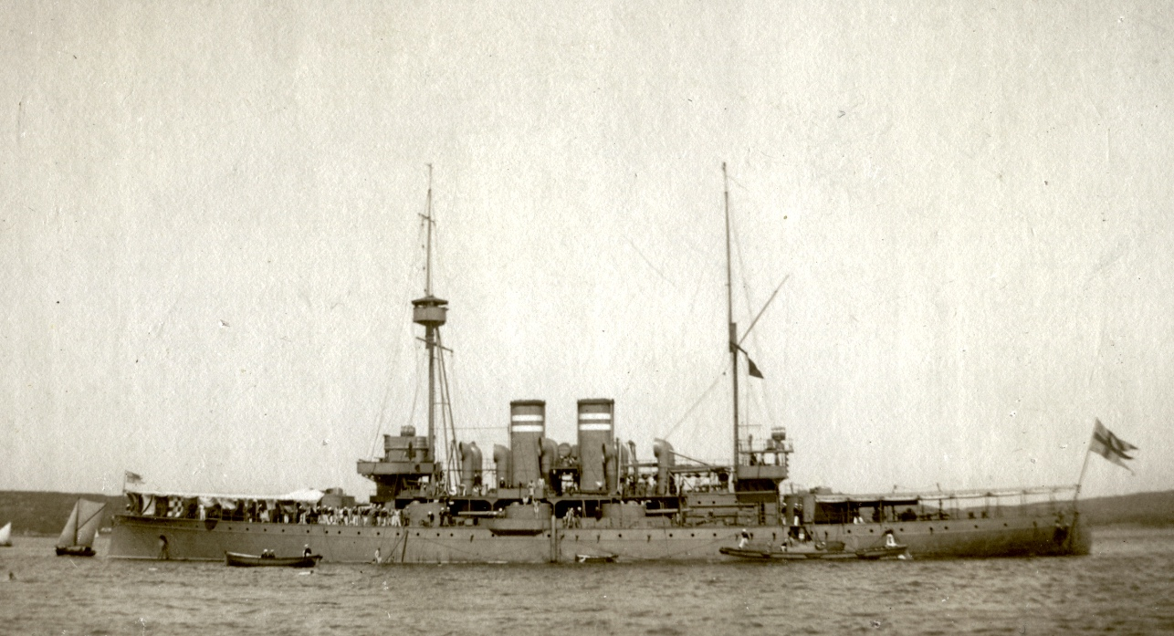 Photograph of the Swedish coastal defense ship Wasa.